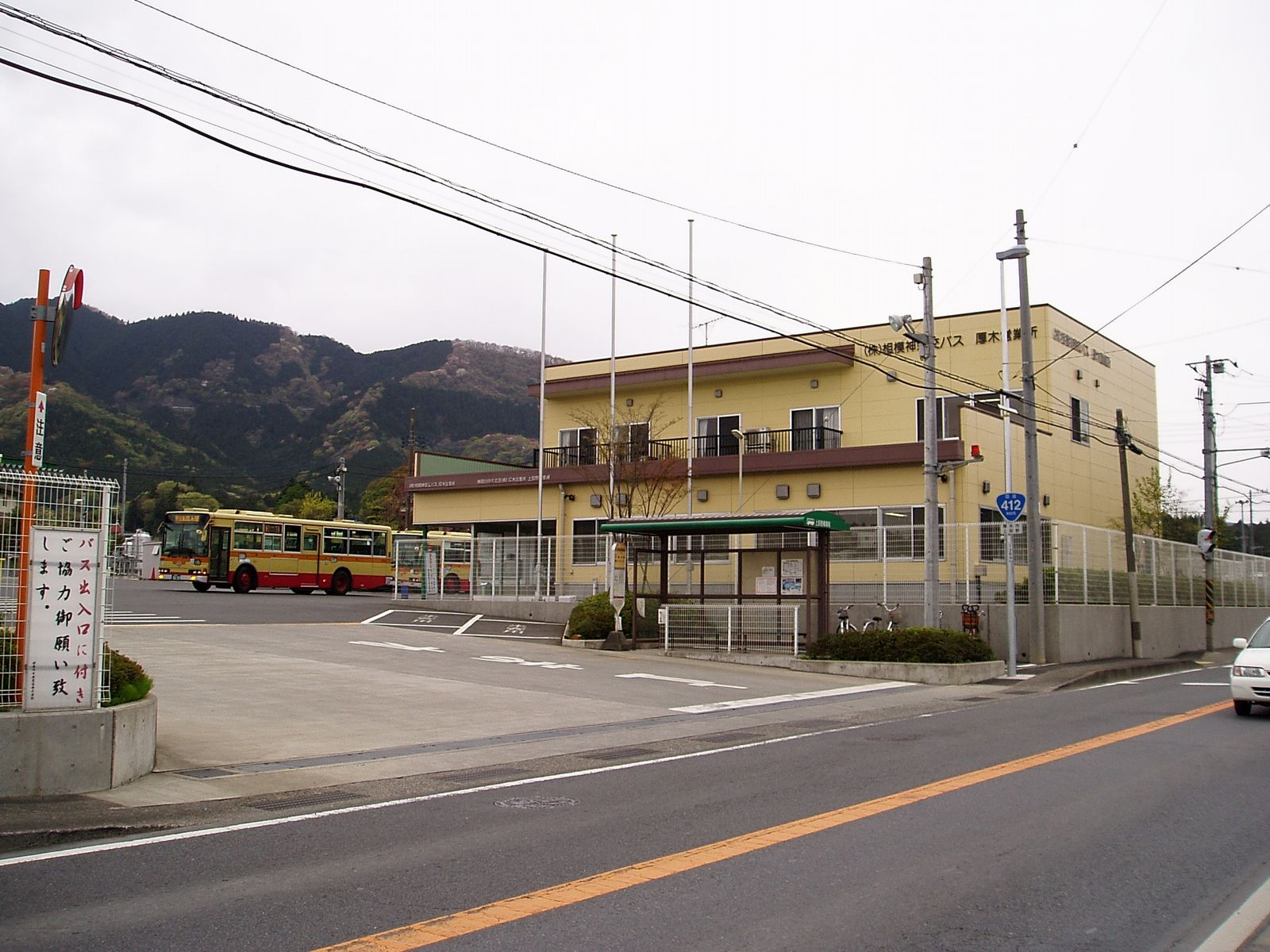 Kanachu Atsugi Branch Kamiogino